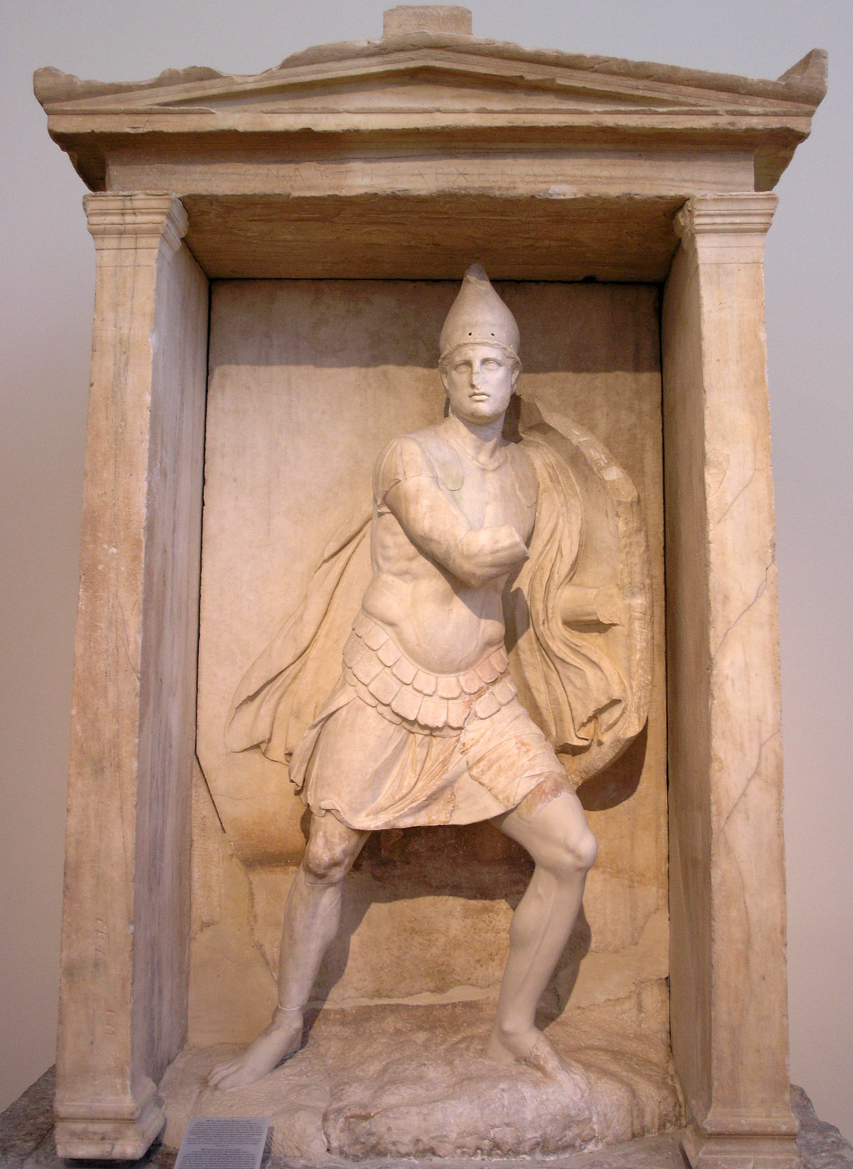 Funerary naiskos of a young soldier (Aristonautes, son of Archenautes, of the deme Halai). Pentelic marble, found in the Kerameikos necropolis in Athens, ca. 350–325 BC.